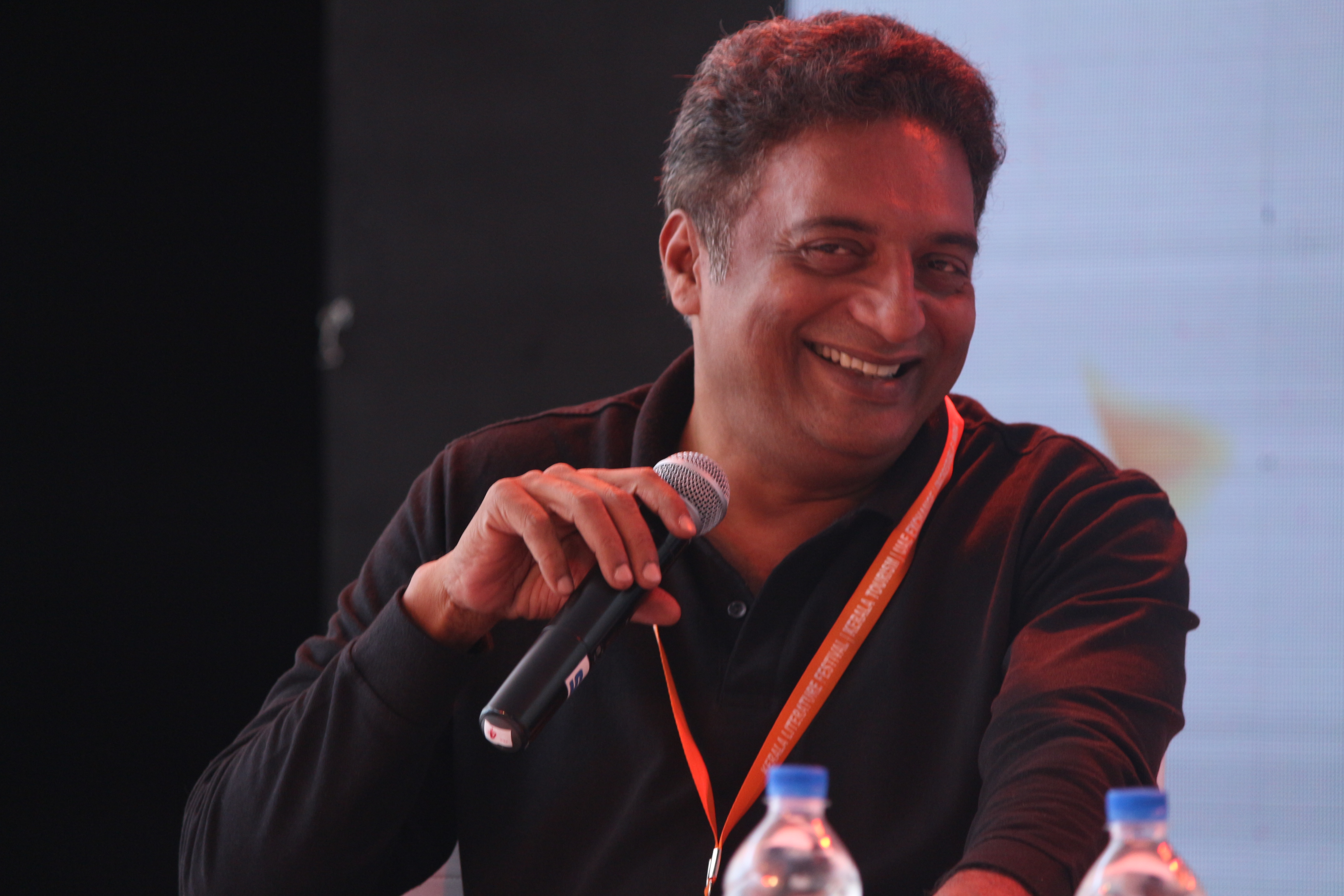 Prakash Raj at Kerala Literature Festival 2018 Kozhikode